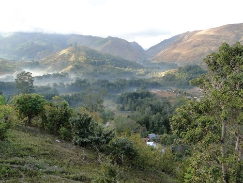 Highland habitat in the area of Maubisse, Ainaro District (altitude at the level of the buildings ca. 1400 m). This habitat has experienced considerable deforestation, as evidenced by the presence of small forest patches in the low-lying areas and the absence of trees on the higher slopes of Mt. Ramelau, in this view. This deforestation apparently began only in the early 1980s (Trainor et al. 2007). The area supports a very active coffee industry. The patchwork of forest, river valleys, coffee plantations, and deforested slopes creates a mosaic environment that most likely will cater exclusively to habitat generalist species